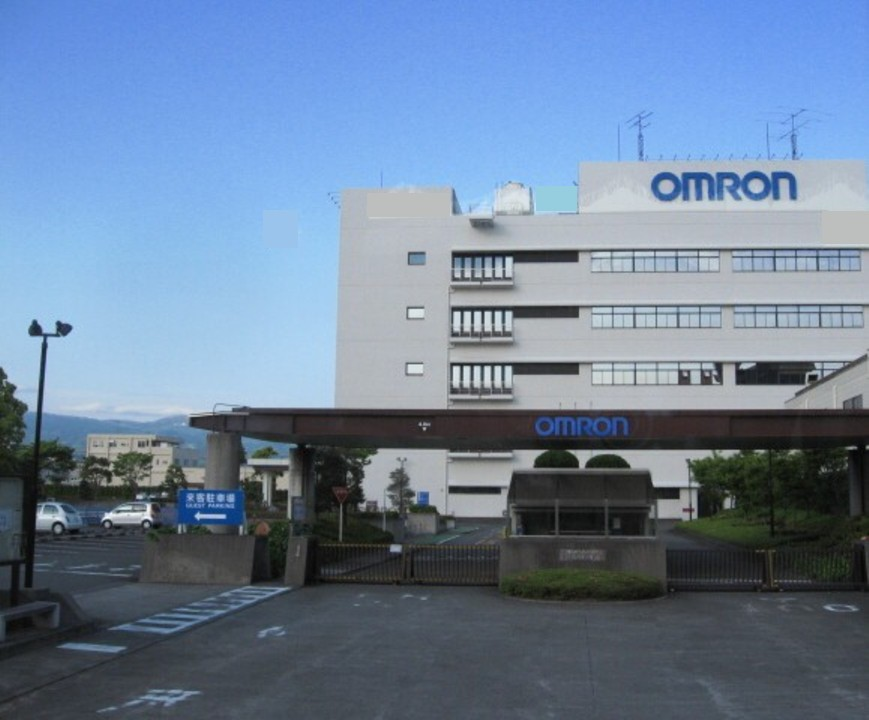 Omron corporation Mishima office billdings.